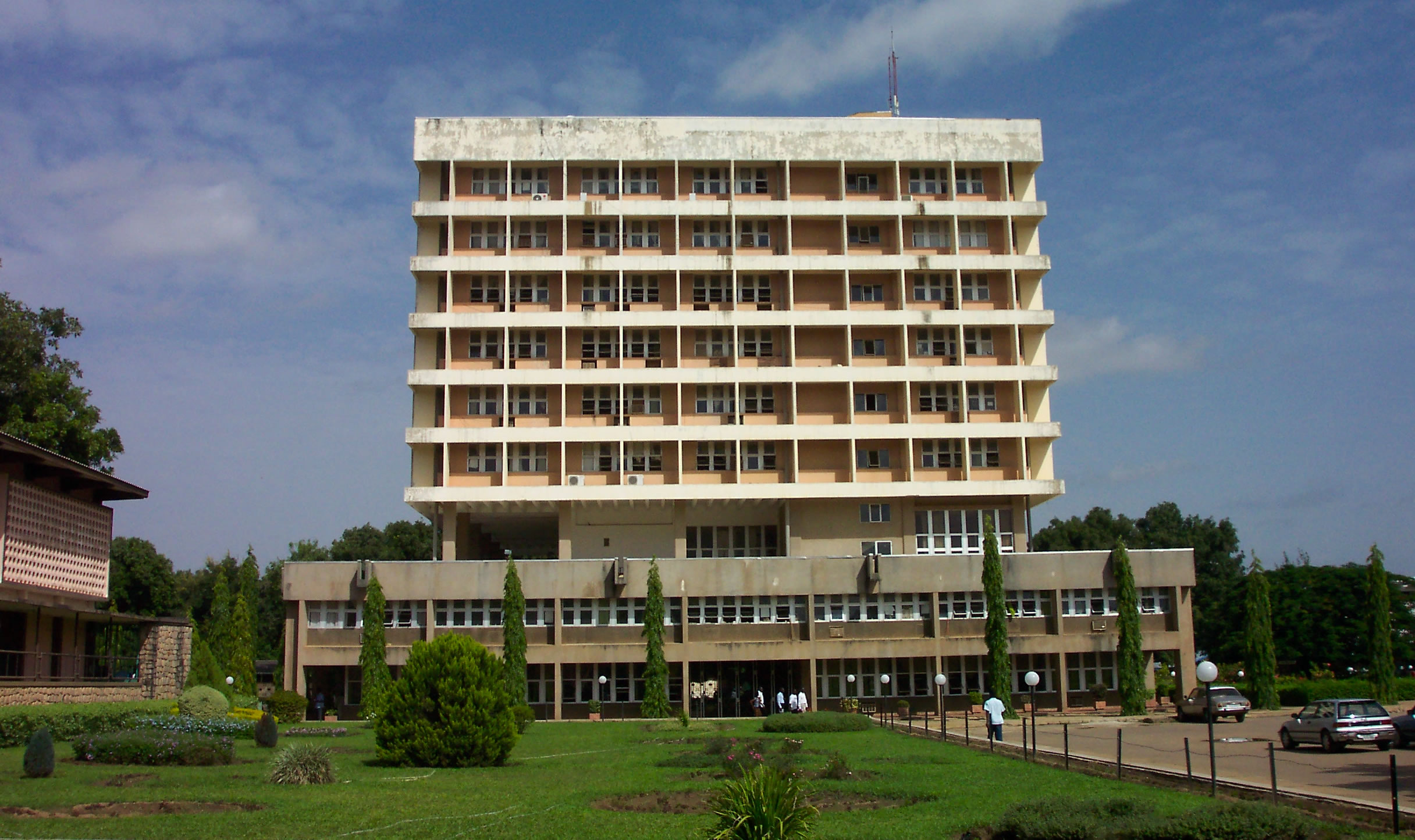 Senate building of the Ahmadu Bello University in Zaria, Nigeria, the second biggest university of Africa